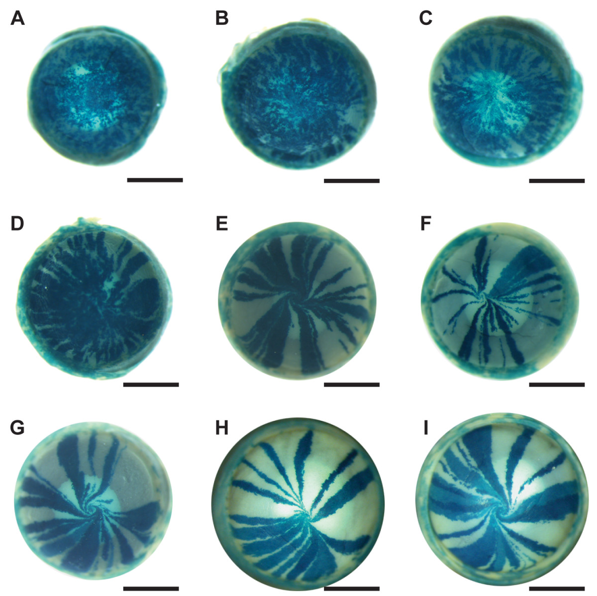 Representative striping patterns in corneal epithelia of XLacZ+/- mosaic mice. Intact eyes from 3–52-week old XLacZ+/- mice were stained for β-gal reporter activity. A: 3-weeks; B: 6-weeks; C: 8-weeks; D: 10-weeks; E: 15-weeks; F: 20-weeks; G: 26-weeks with an anticlockwise whorl; H: 39-weeks exhibiting a midline; I: 52-weeks with a clockwise whorl. Scale bars in A-K = 1 mm. Scale bars in L-M = 100 μm. Mort et al. BMC Developmental Biology 2009 9:4